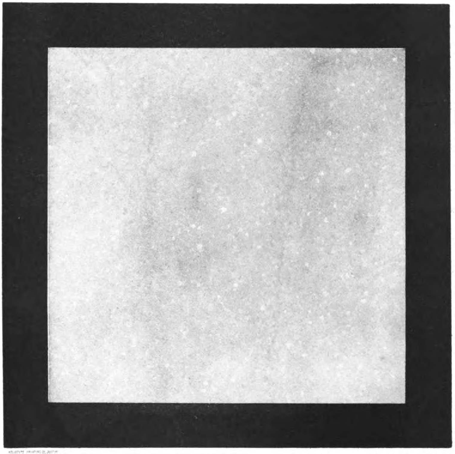 Plate XXI of 1898 publication called Maryland Geological Survey Volume Two, with caption "MARBLE. Cockeysville, Baltimore County." This shows what is now called the Cockeysville Marble. Width of the field inside the black border is approximately 10.7 cm.